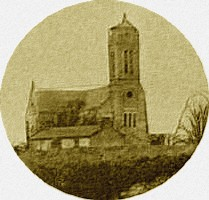 Nouvelle Eglise des Lucs-sur-Boulogne en construction